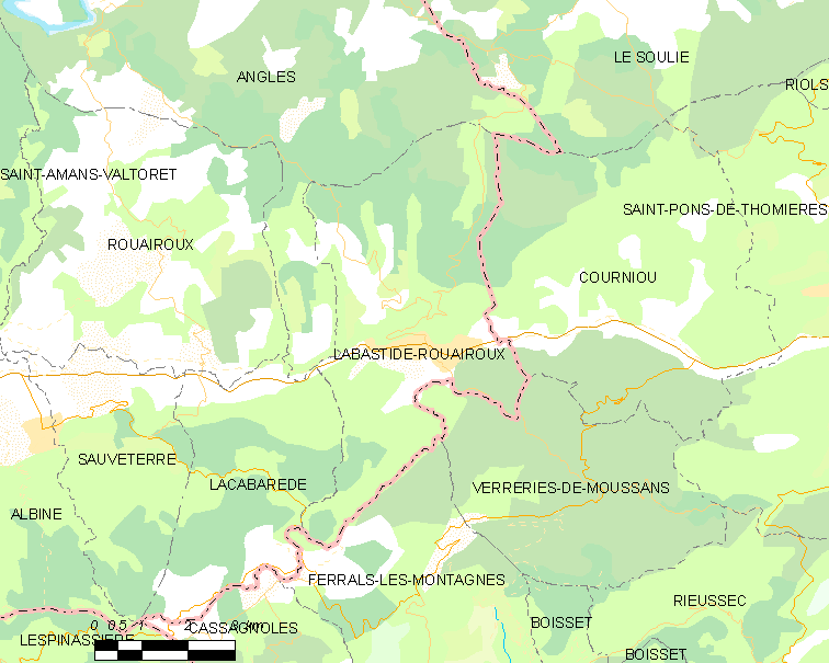 Map commune FR insee code 81115.png - Labastide-Rouairoux